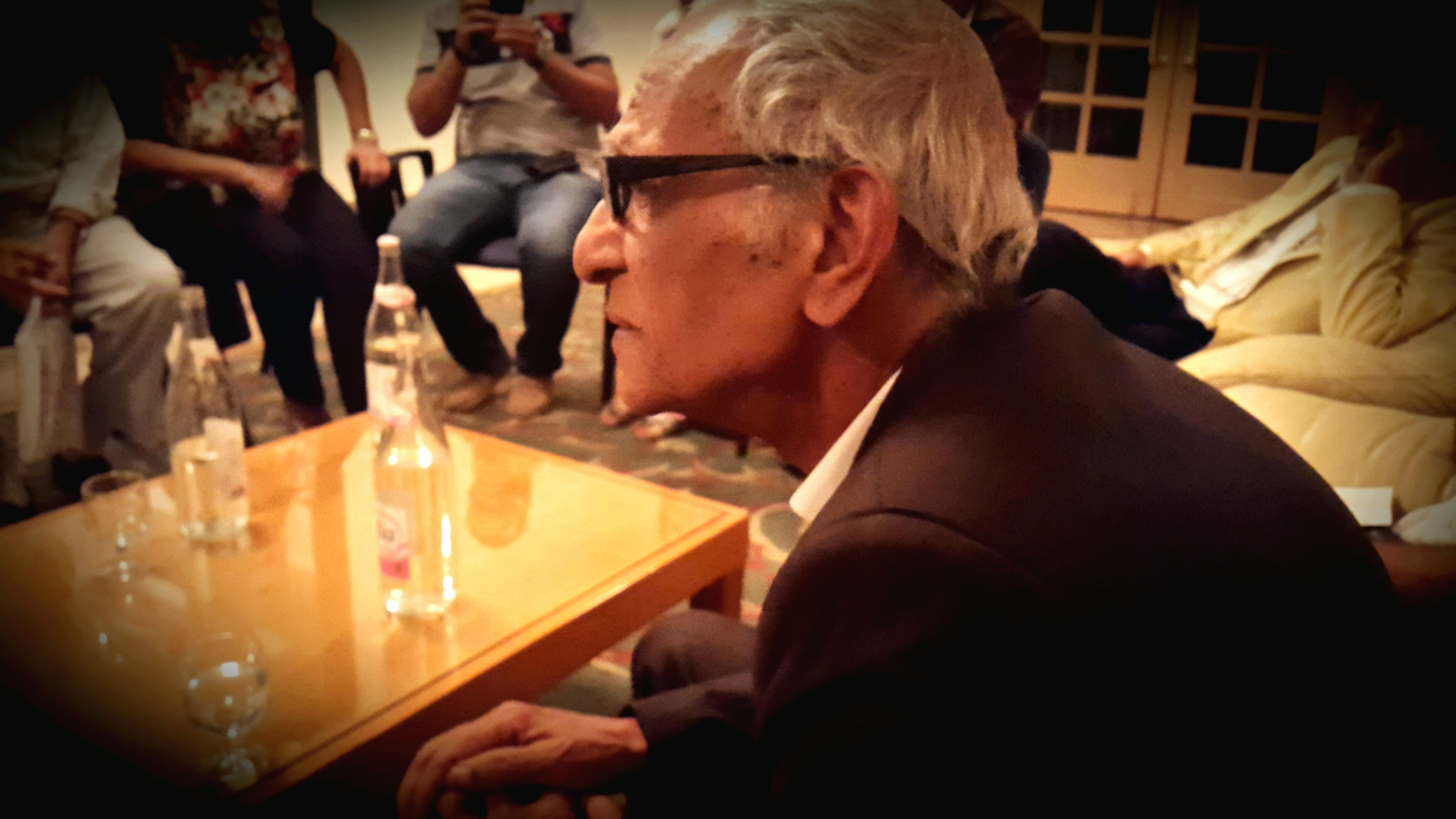 Book launch session in Africa Hotel